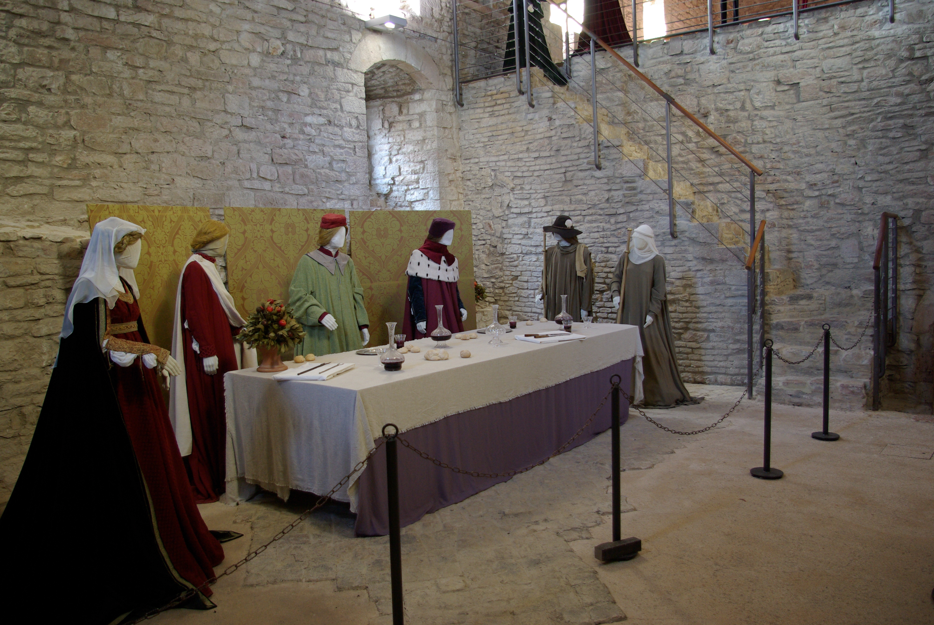 Assisi,Rocca Maggiore